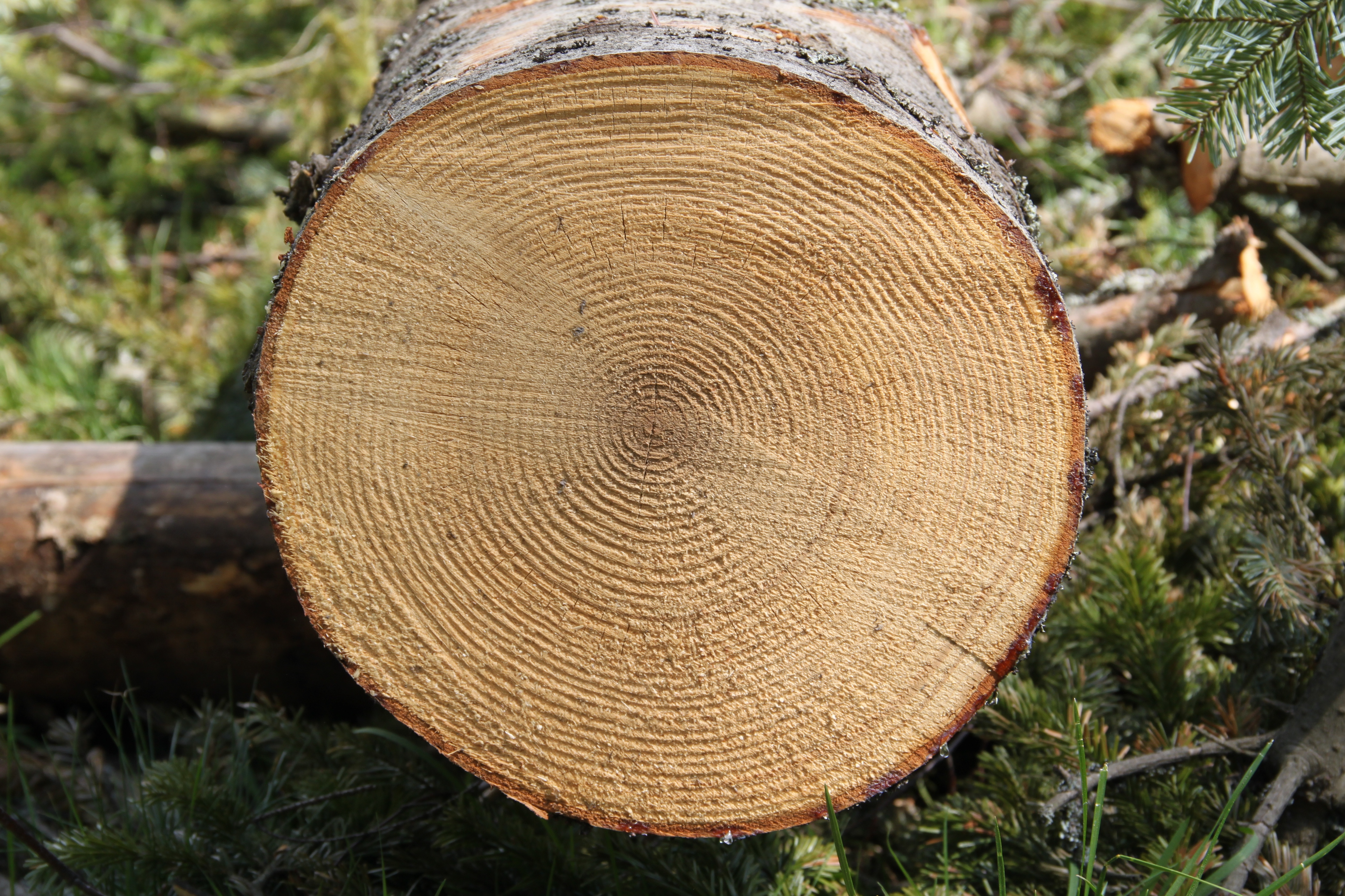 Abies alba cross section, Beskid Żywiecki, Poland.